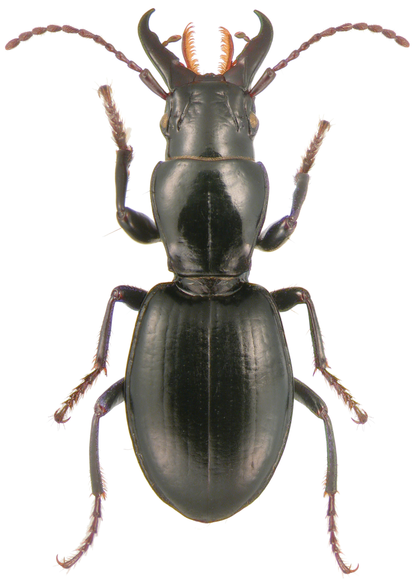 Promecognathus crassus LeConte. This species, along with its close relative Promecognathus laevissimus, are western coastal elements that feed on polydesmid millipedes. The adults straddle their prey, moving quickly toward the head to pierce the neck and sever the ventral nerve cord with their long mandibles, thereby preventing the millipedes from using their cyanide defense spray. Promecognathines represent a very old, relic lineage, likely originating from Pangea, represented today only in western North America and the Cape Province in South Africa.